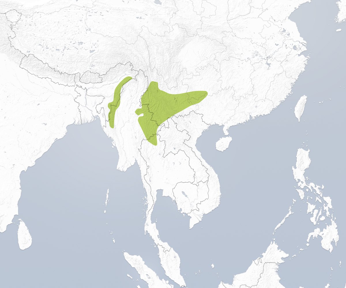 Distribution of Hume’s Pheasant (Syrmaticus humiae)